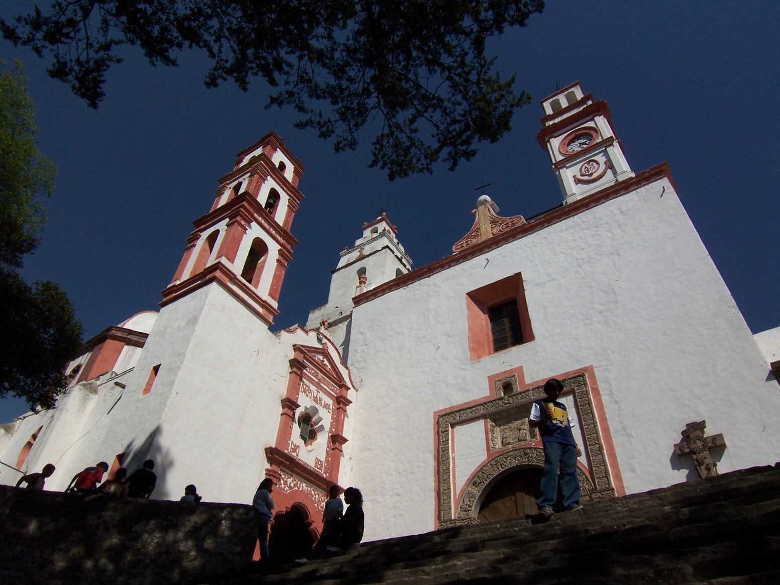 San Francisco Convent in Tepeapulco, Hidalgo